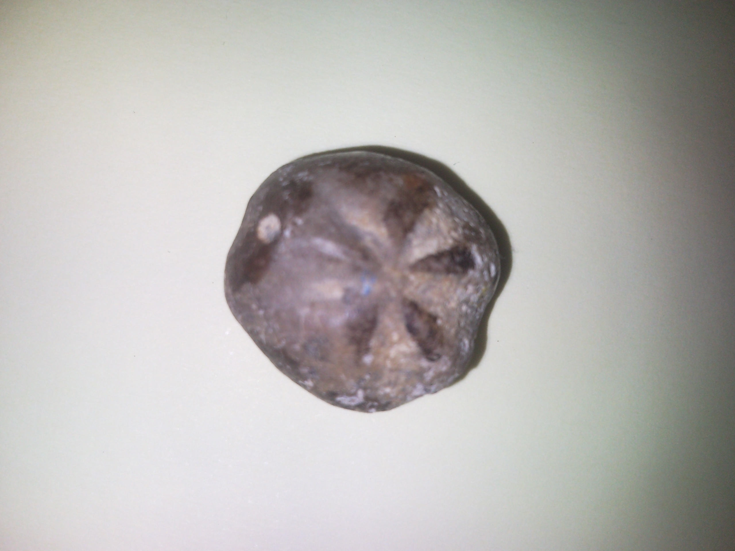 Echinodermata fossil collected in the term of Las Fraguas, Soria (Spain). Also known of "Stones of the Virgin"